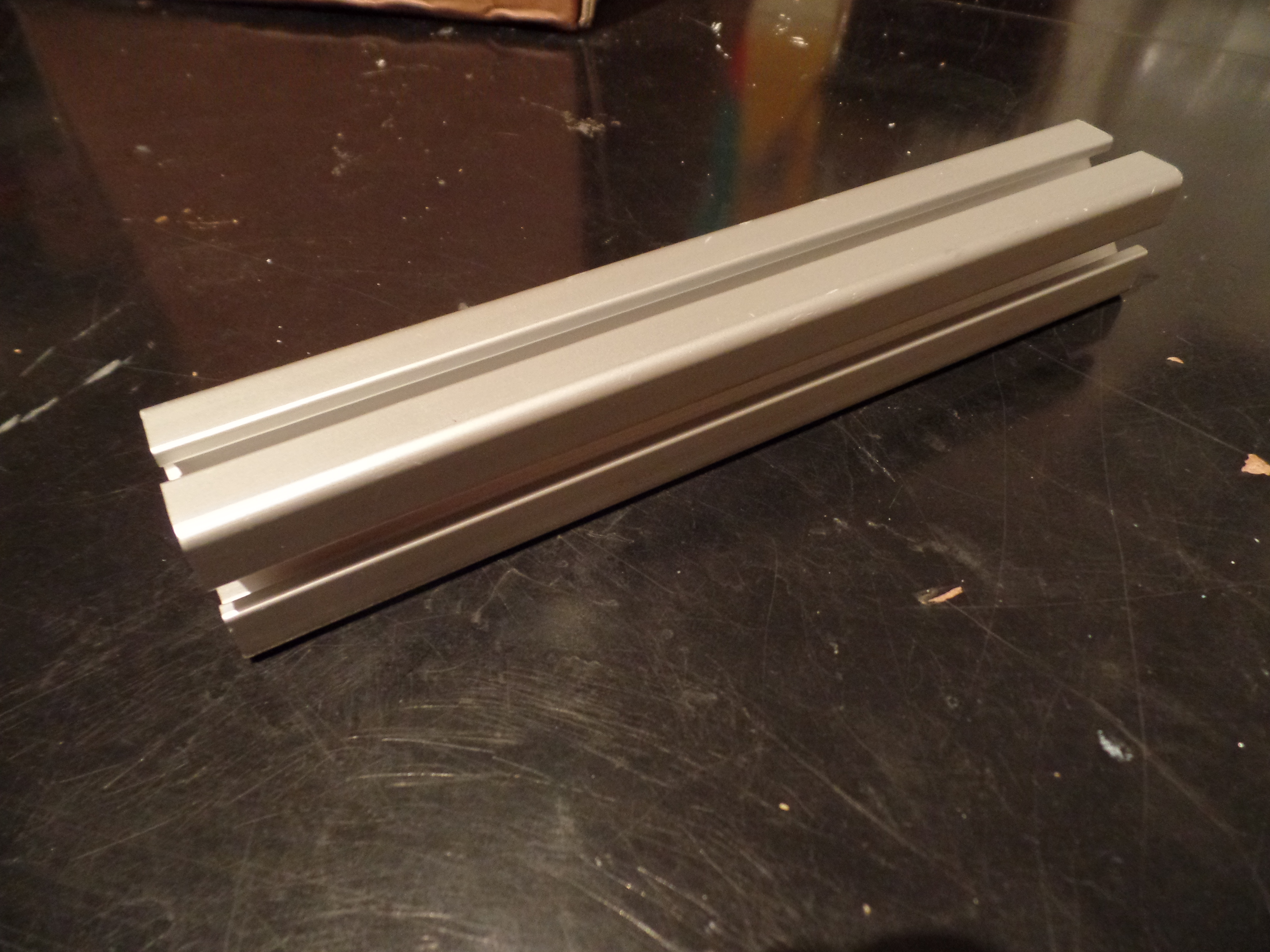 Anodised aluminum profile.